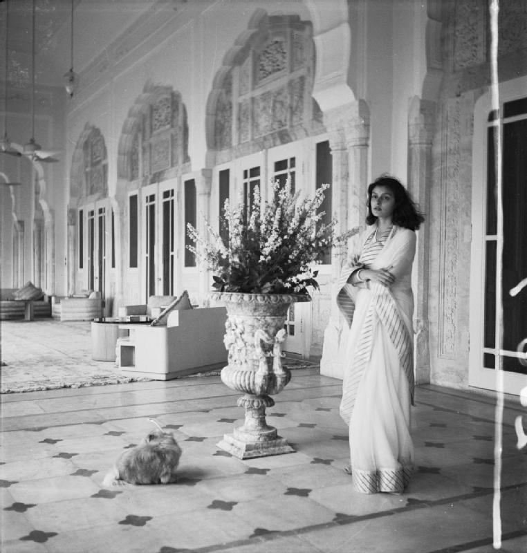 Cecil Beaton Photographs- Political and Military Personalities Political Personalities: Full length portrait of the Maharanee of Jaipur wearing a sari.